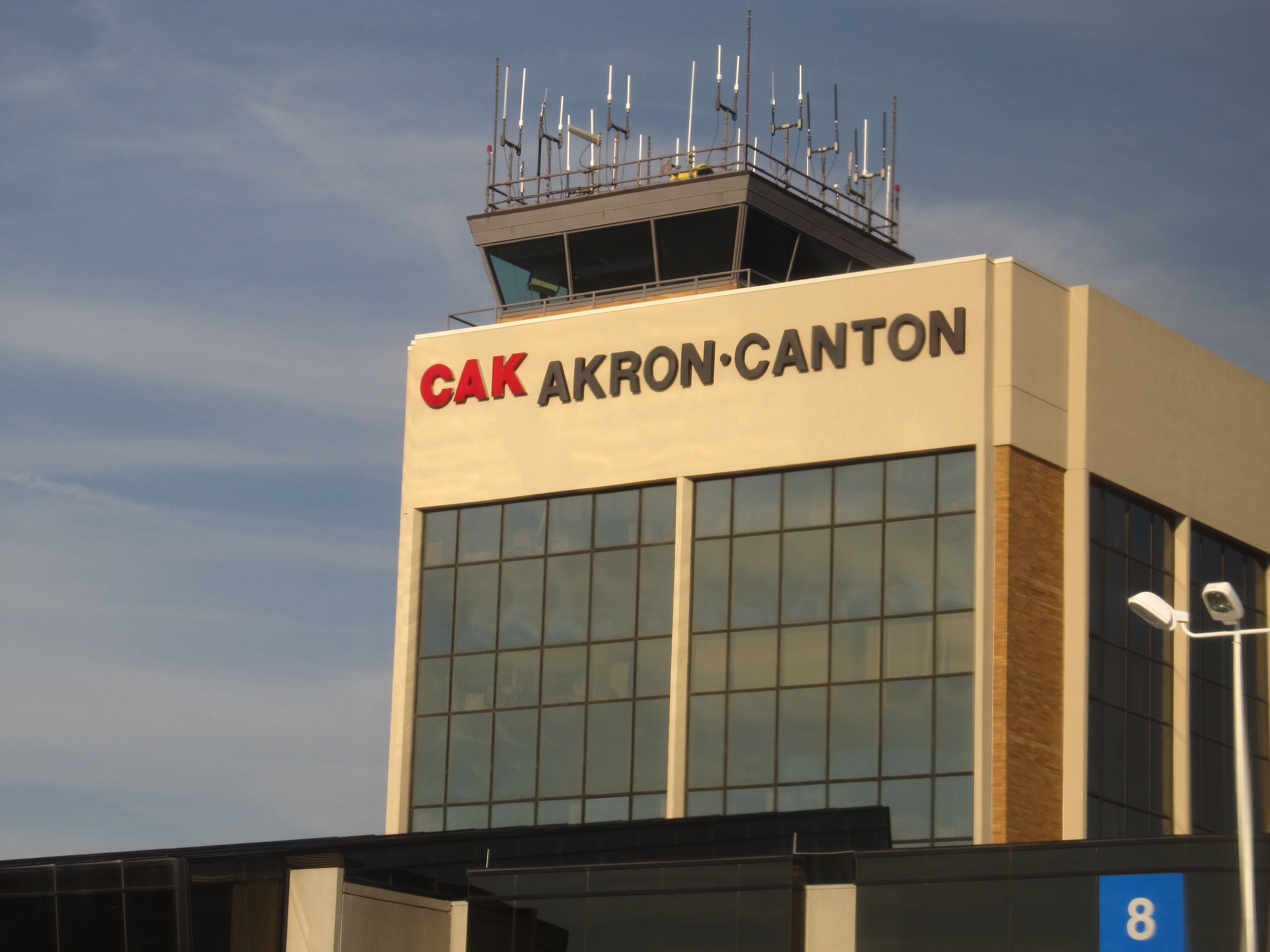 Airport terminal building and control tower of Akron-Canton Regional Airport (IATA: CAK)